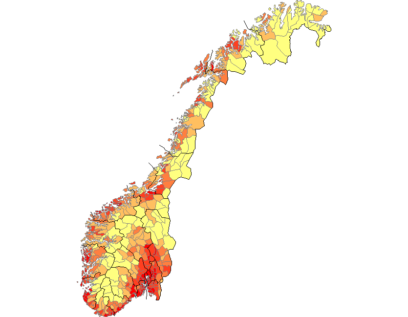 Norway population density